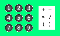 Numbers and arithmetic operations for Make 24